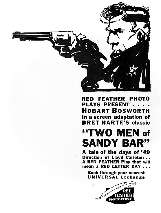 Magazine ad for Two Men of Sandy Bar